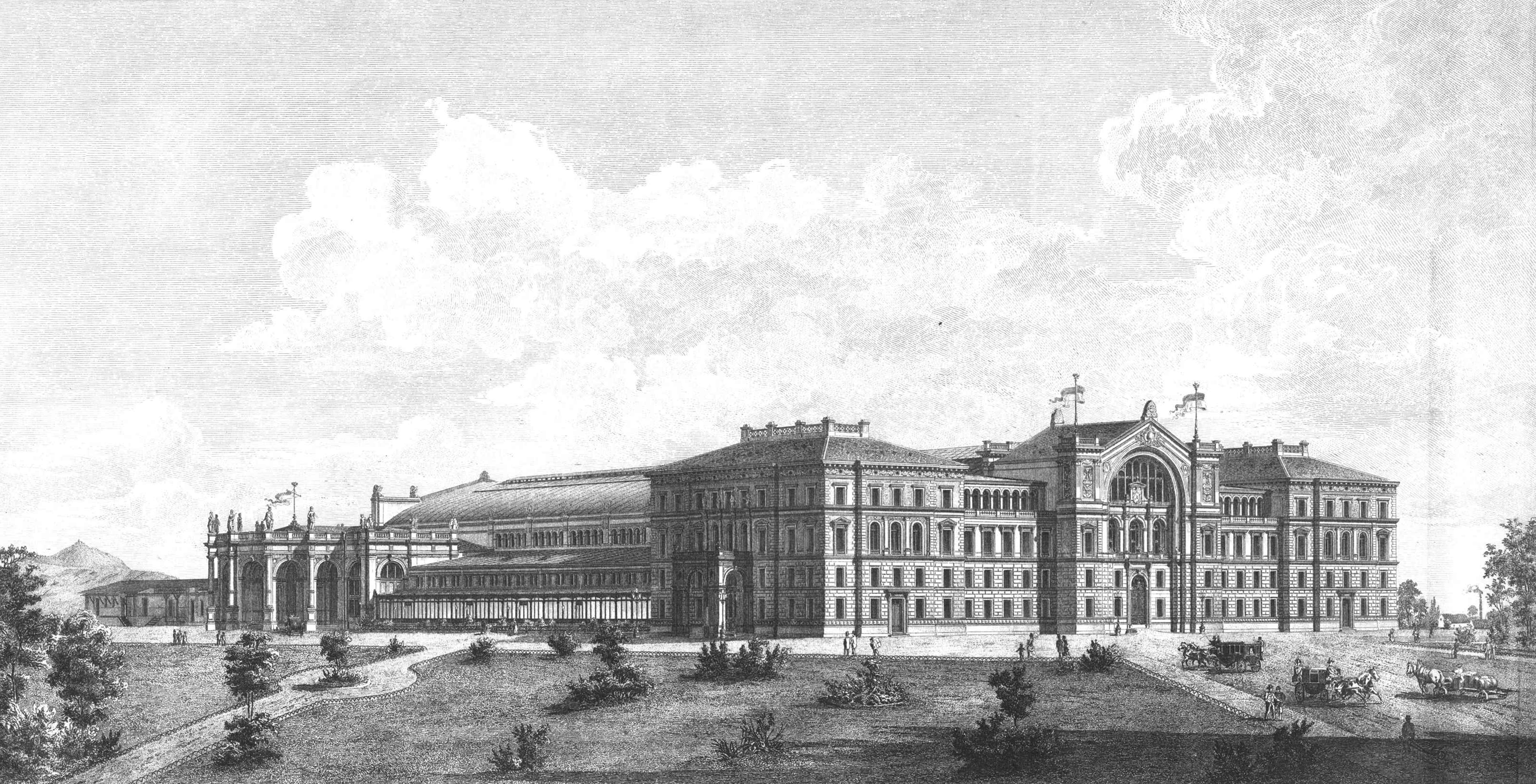 High resolution plan 1873 of the Nordwestbahnhof in Brigittenau, the XX. district of Vienna / Austria / EU. The representation is idealized - The building is too big, it was not on a hill, the areas in front of the station are too big and too free, the mountains in the background too high.